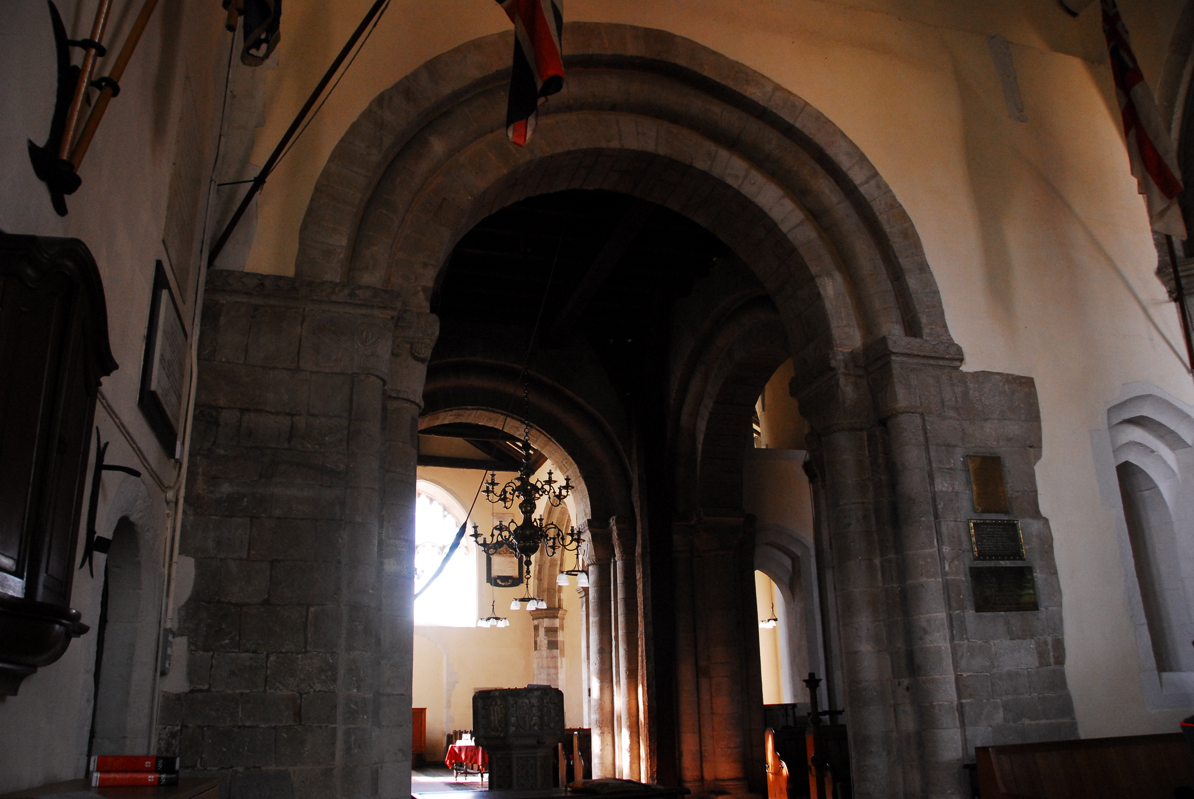 Norman arches in Church of St Lawrence, Alton